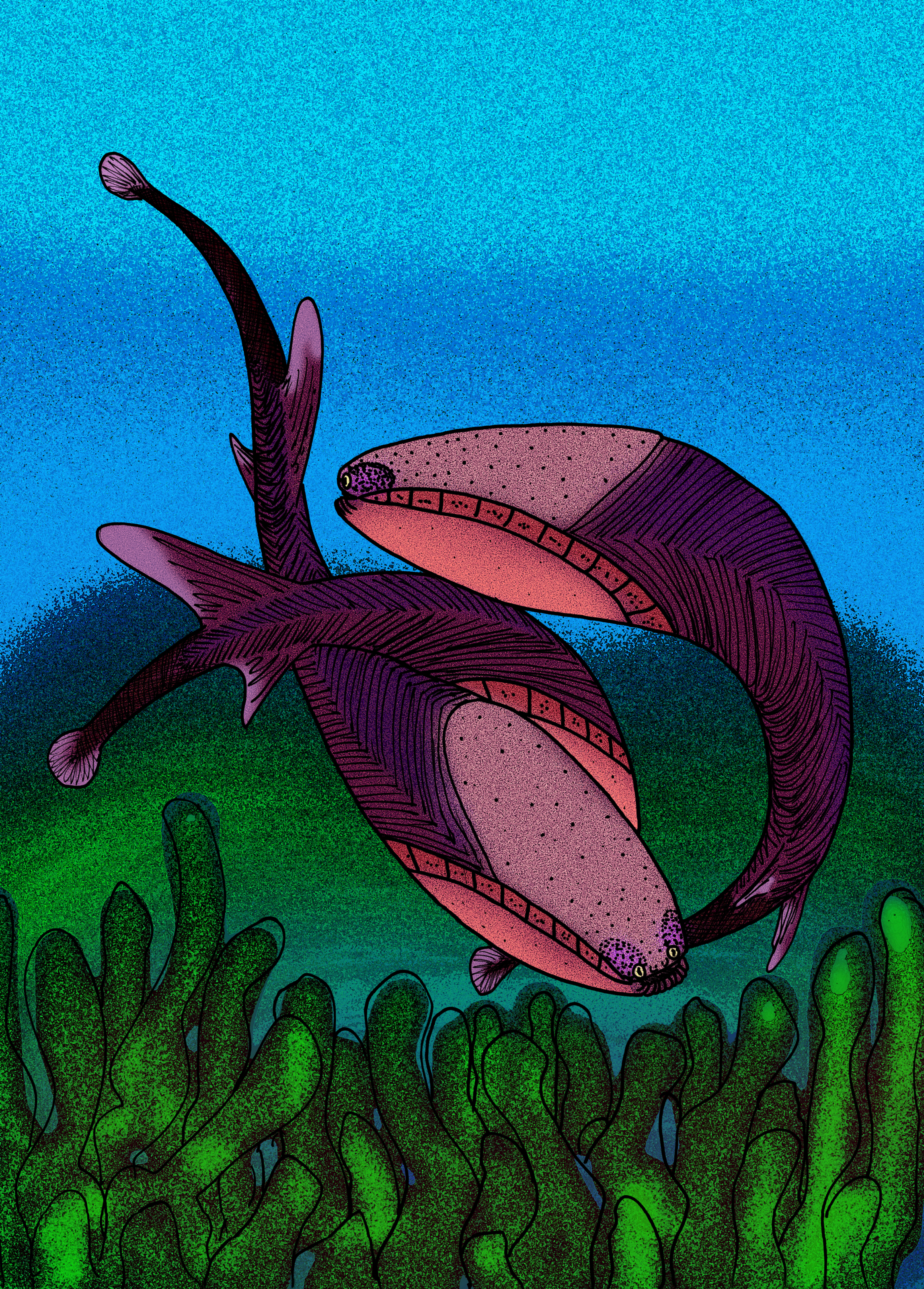 Reconstruction of the Ordovician agnath Sacabambaspis, of what is now South America (C) Stanton F. Fink